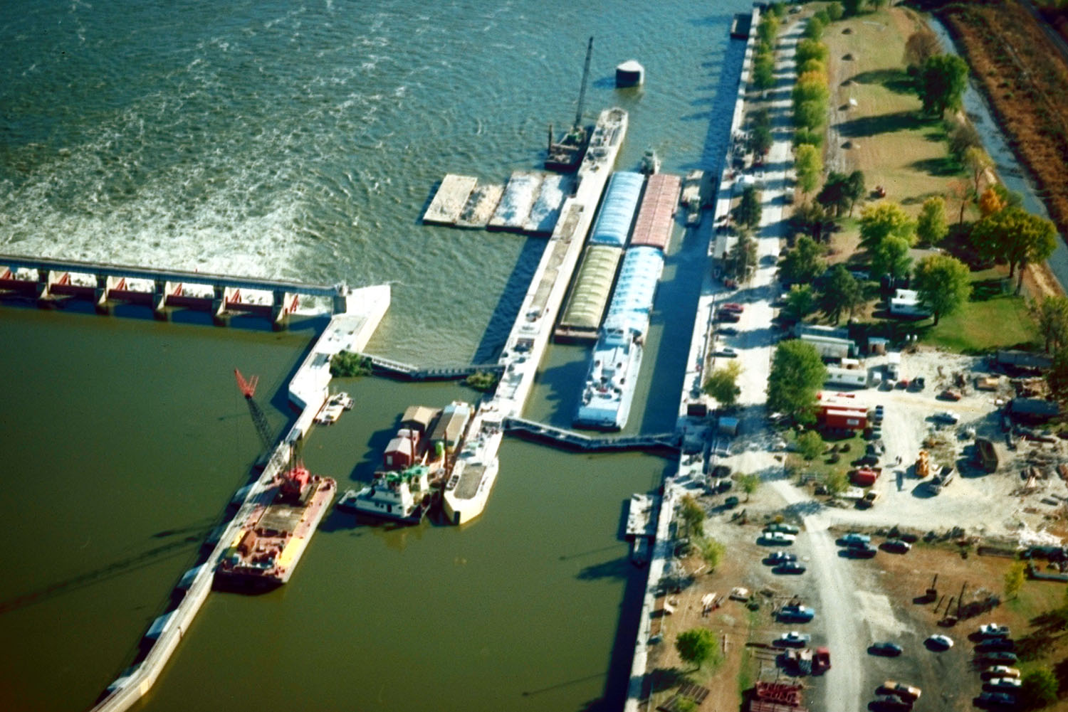 Aerial view of Lock and Dam number 20 on the Mississippi River near Canton, Missouri, USA. View is downriver to the south.